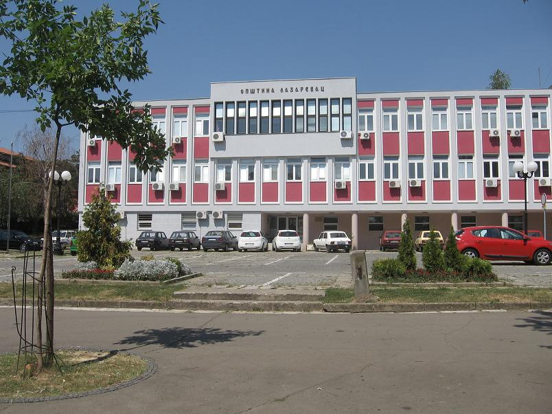 (foto: Goran Necin)